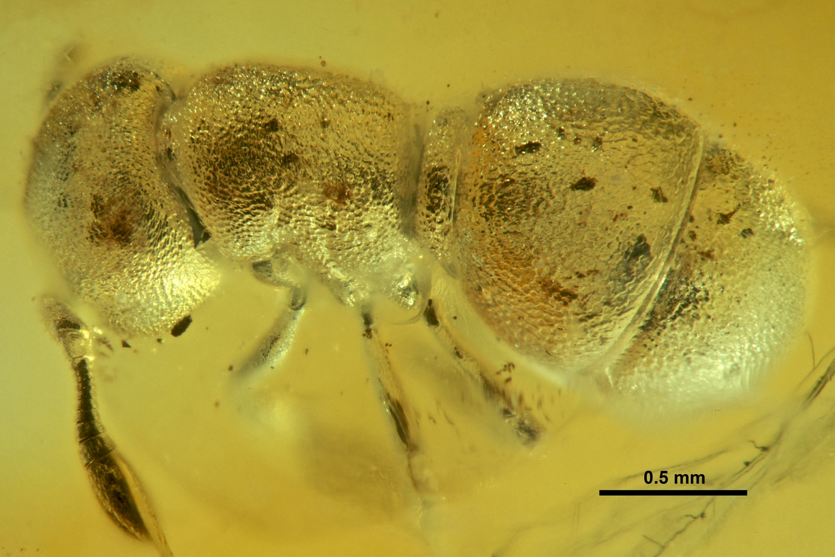 Dorsal view of the Bradoponera electrina worker holotype. Specimen number SMFBE525. Baltic Amber, Middle Eocene, Baltic Region, Europe.